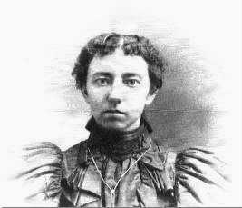 The real Carrie Ingalls.